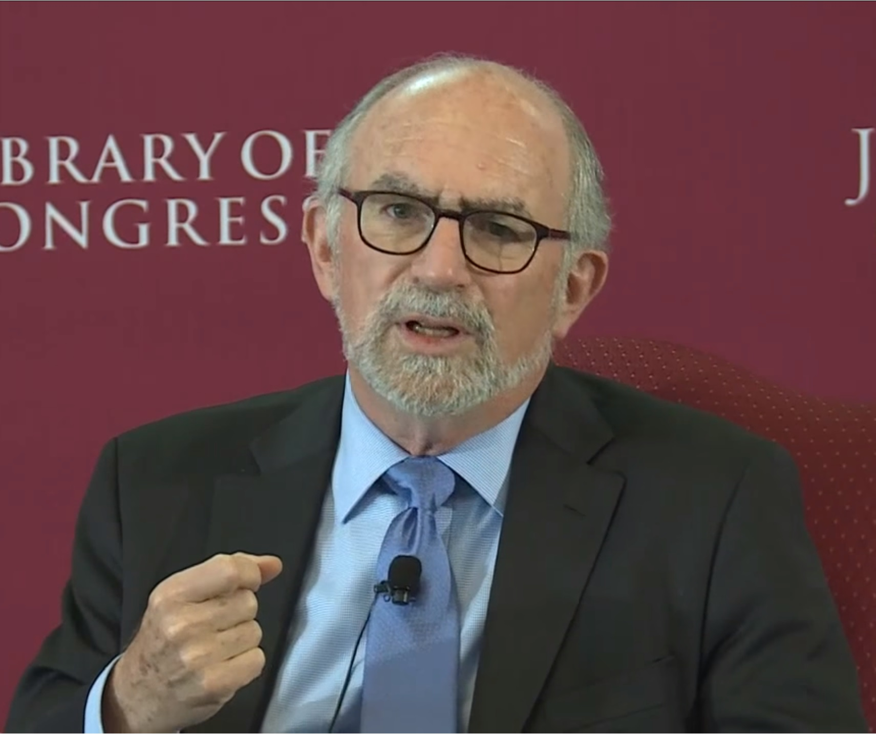 Bruce Jentleson discussed his new book The Peacemakers, which he researched while the Kissinger Chair in the Library's John W. Kluge Center. The book explores how a variety of 20th-century leaders rewrote the scripts they were handed to make breakthroughs on issues long thought intractable. For transcript and more information, visit